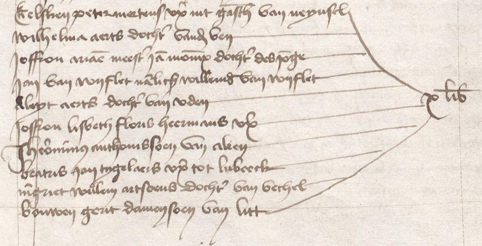 List of new members of the 's-Hertogenbosch Illustrious Brotherhood of Our Blessed Lady, including painter Hieronymus Bosch. Brabants Historisch Informatie Centrum, Archief van de Illustre Lieve Vrouwe Broederschap, Rekeningboek 1485-1495 (inv. 122), fol. 42v.